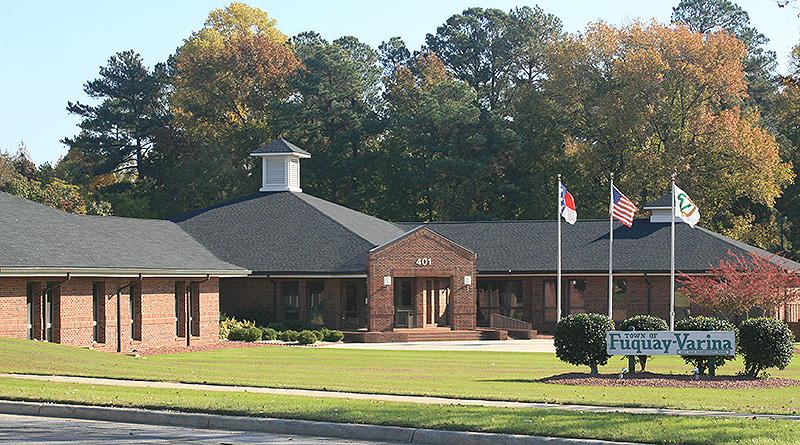 Fuquay-Varina Town Hall located at 401 Judd Parkway, Fuquay-Varina, North Carolina.